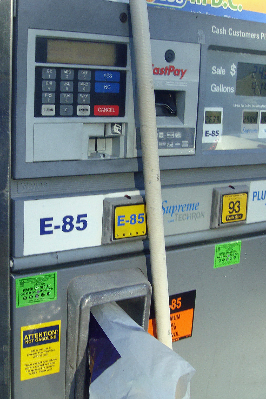 E85 fuel pump for sale at a regular gasoline station in Washington, D.C.